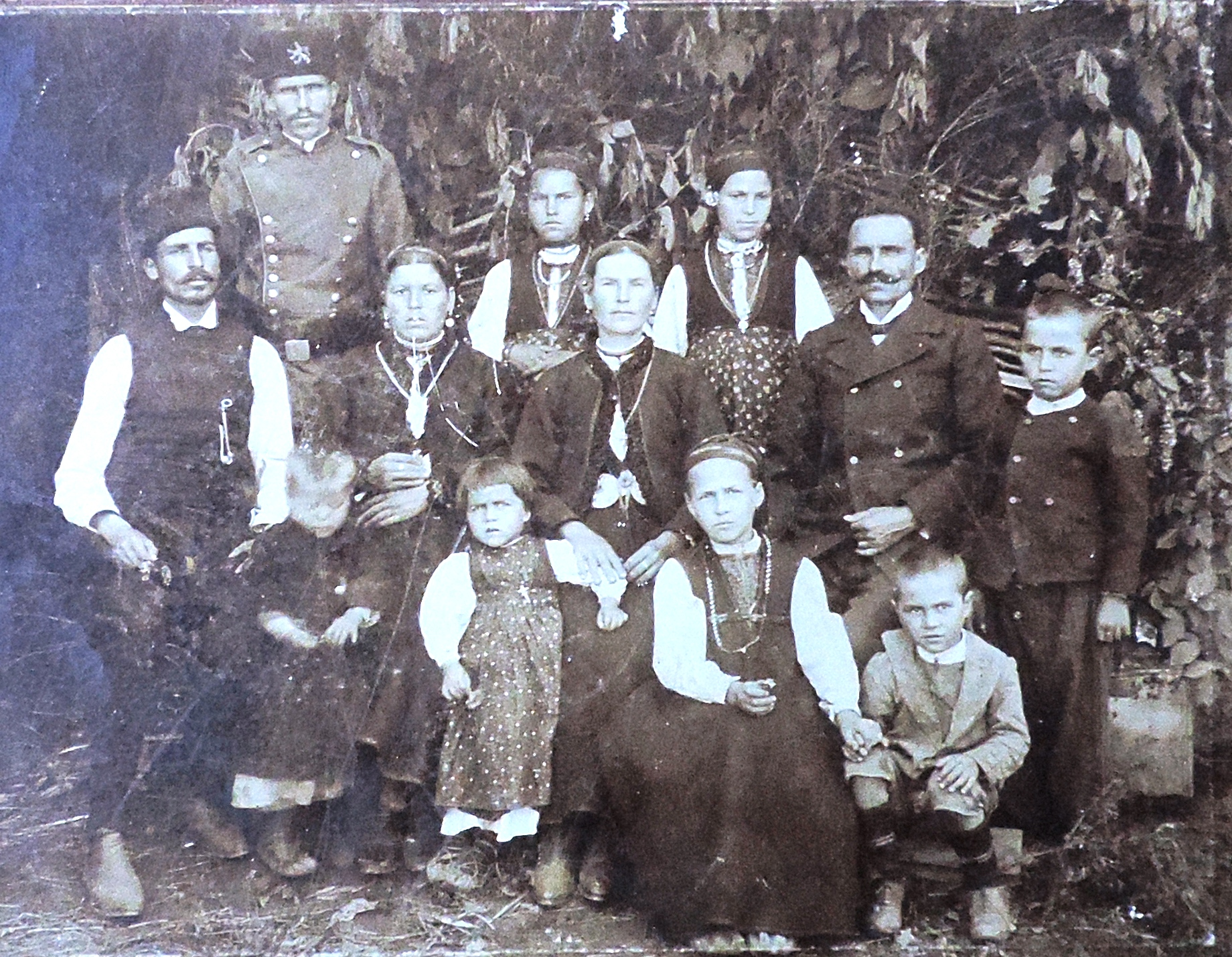 The family of the bulgarian writer Elin Pelin.